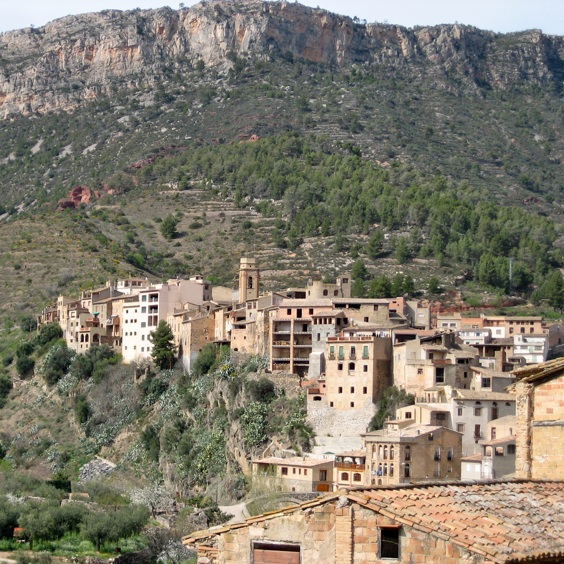 La Vilella Baixa (Catalonia)